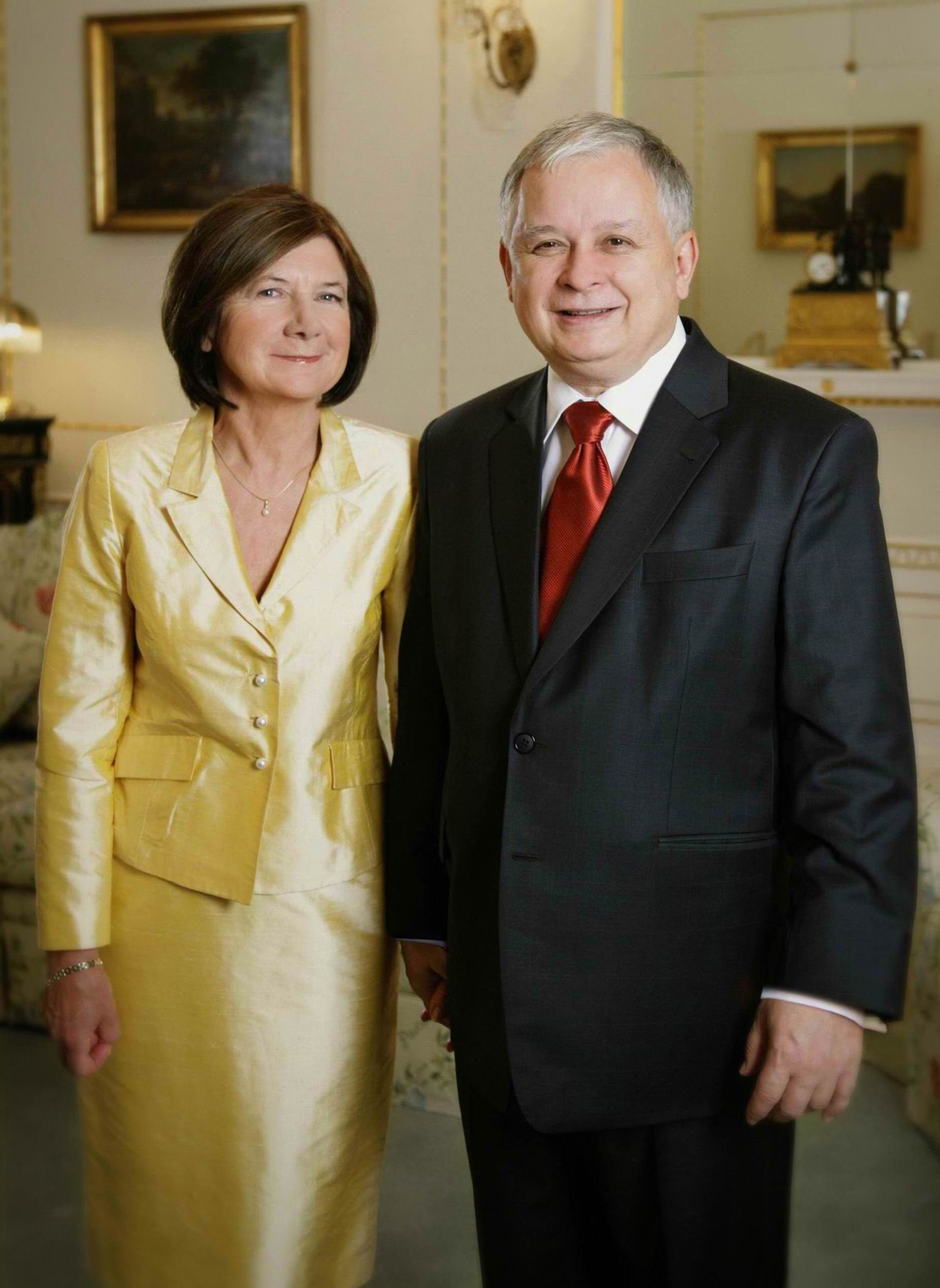 Mr Lech Kaczyński and his wife.